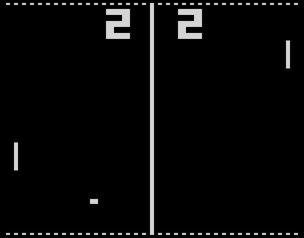 Screenshot Tennis AY-3-8500